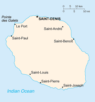 Map of Reunion, showing major towns.